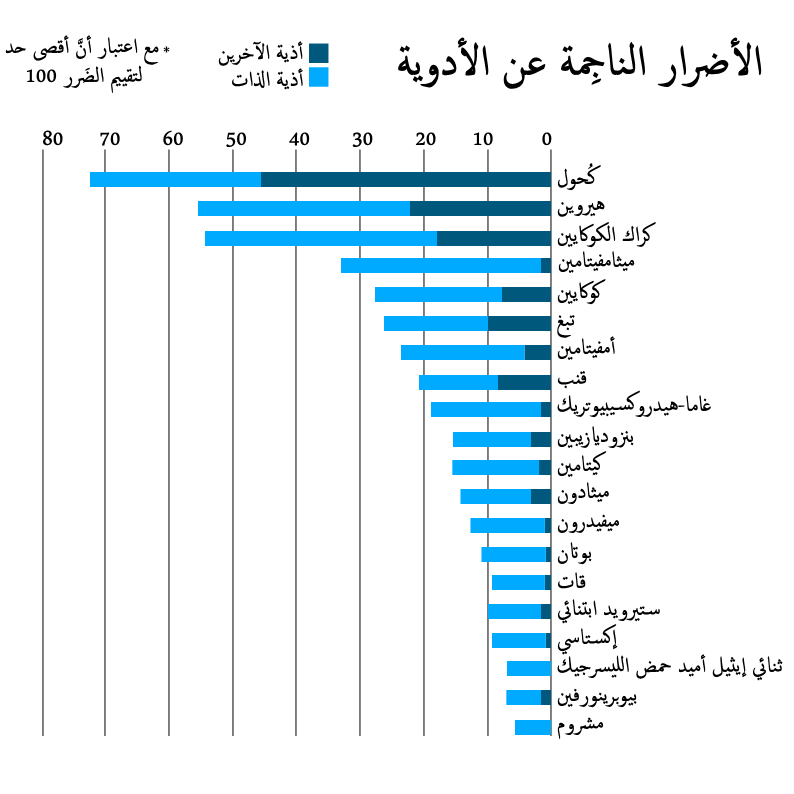 Researchers asked drug-harm experts to rank these illegal and legal drugs on various measures of harm both to the user and to others in society. These measures include damage to health, drug dependency, economic costs and crime. The researchers claim that the rankings are stable because they are based on so many different measures and would require significant discoveries about these drugs to affect the rankings. Note that alcohol (despite being legal more often than the other drugs) is by far the most harmful; not only is it the most damaging to societies, it is also the fourth most dangerous for the user. Most of the drugs were rated significantly less harmful than alcohol, with most of the harm befalling the user. The authors explain that one of the limitation of this study is that drug harms are functions of their availability and legal status in the UK, and so other cultures' control systems could yield different rankings.